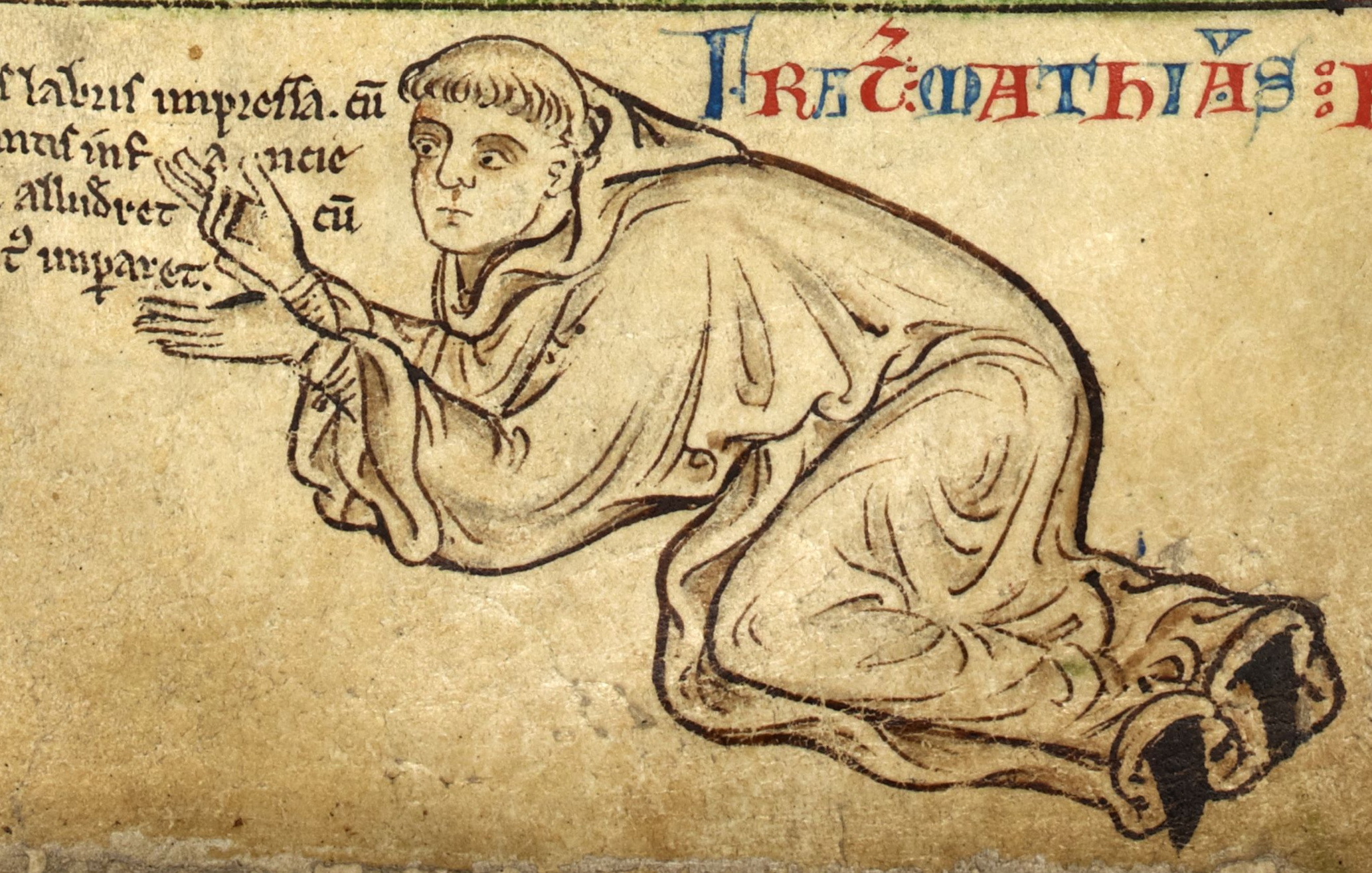 Illustration from London, British Library, MS Royal 14 C VII, folio 6r, self-portrait of Matthew Paris.